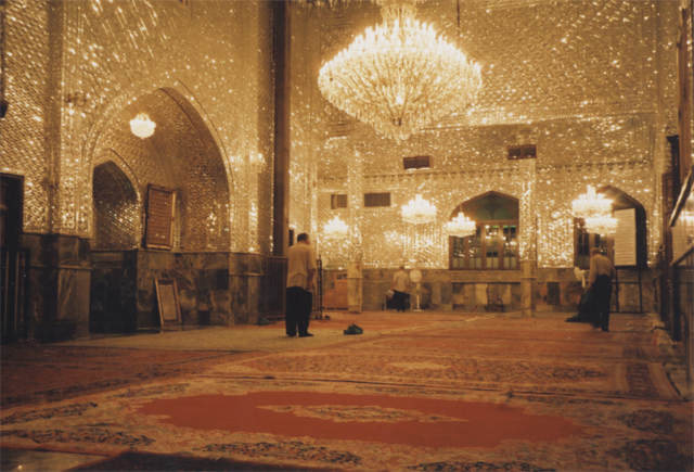 Scanned from photo I took